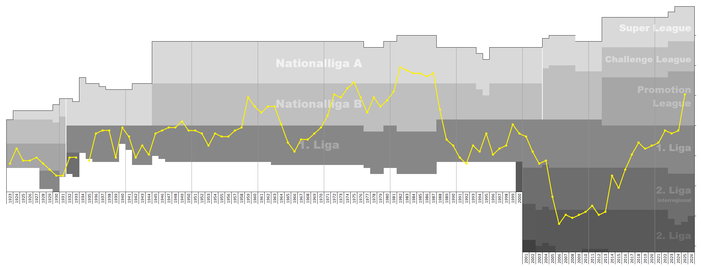 Chart of end-season table positions of FC Vevey United in the Swiss football league system. Data source: RSSSF, , football.ch